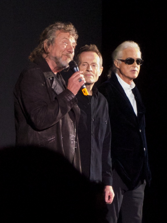 Led Zepplin talking to press about the film Celebration Day at premiere at the Hammersmith Apollo in London, England, United Kingdom